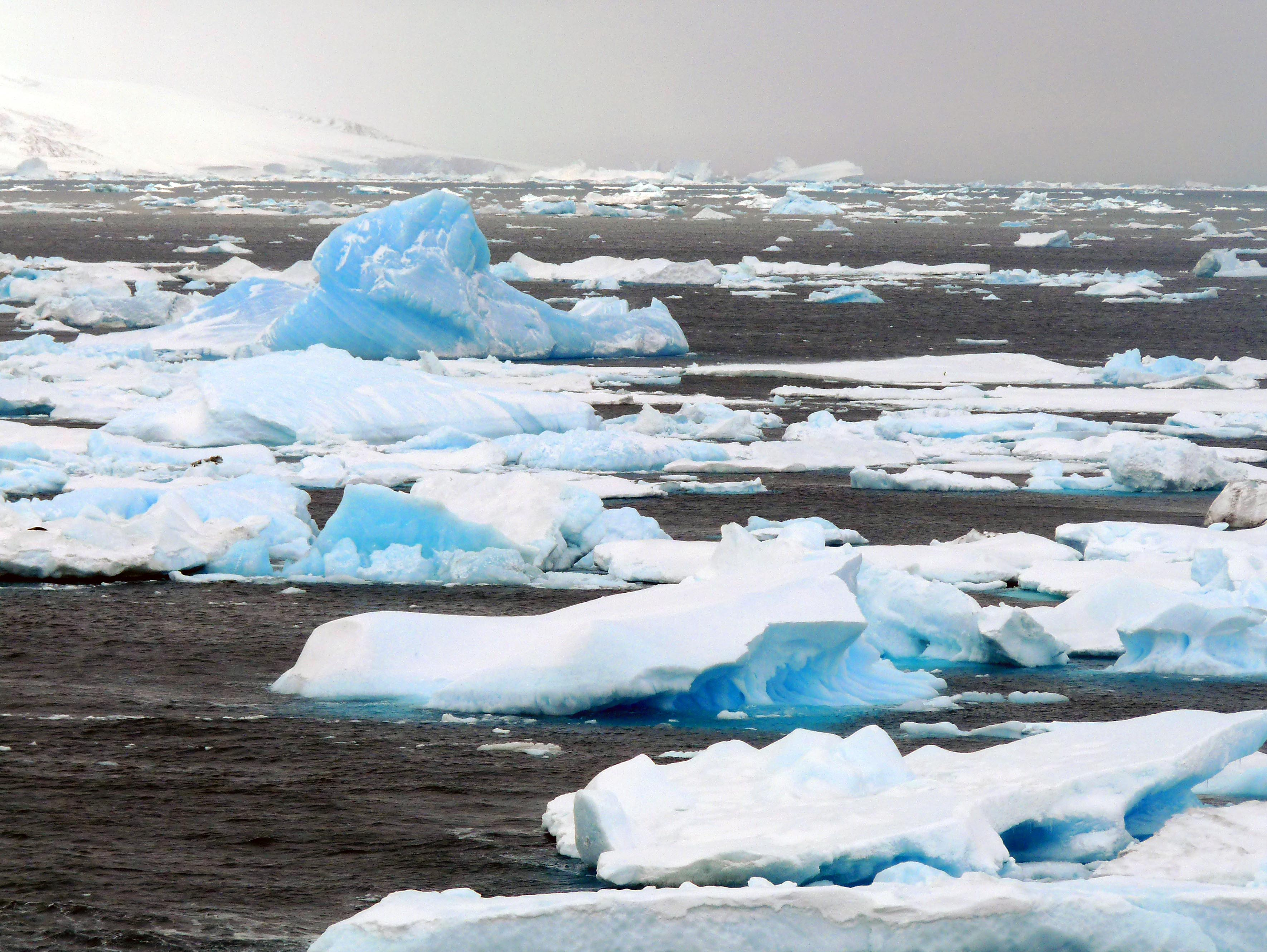 AP97 ice floes